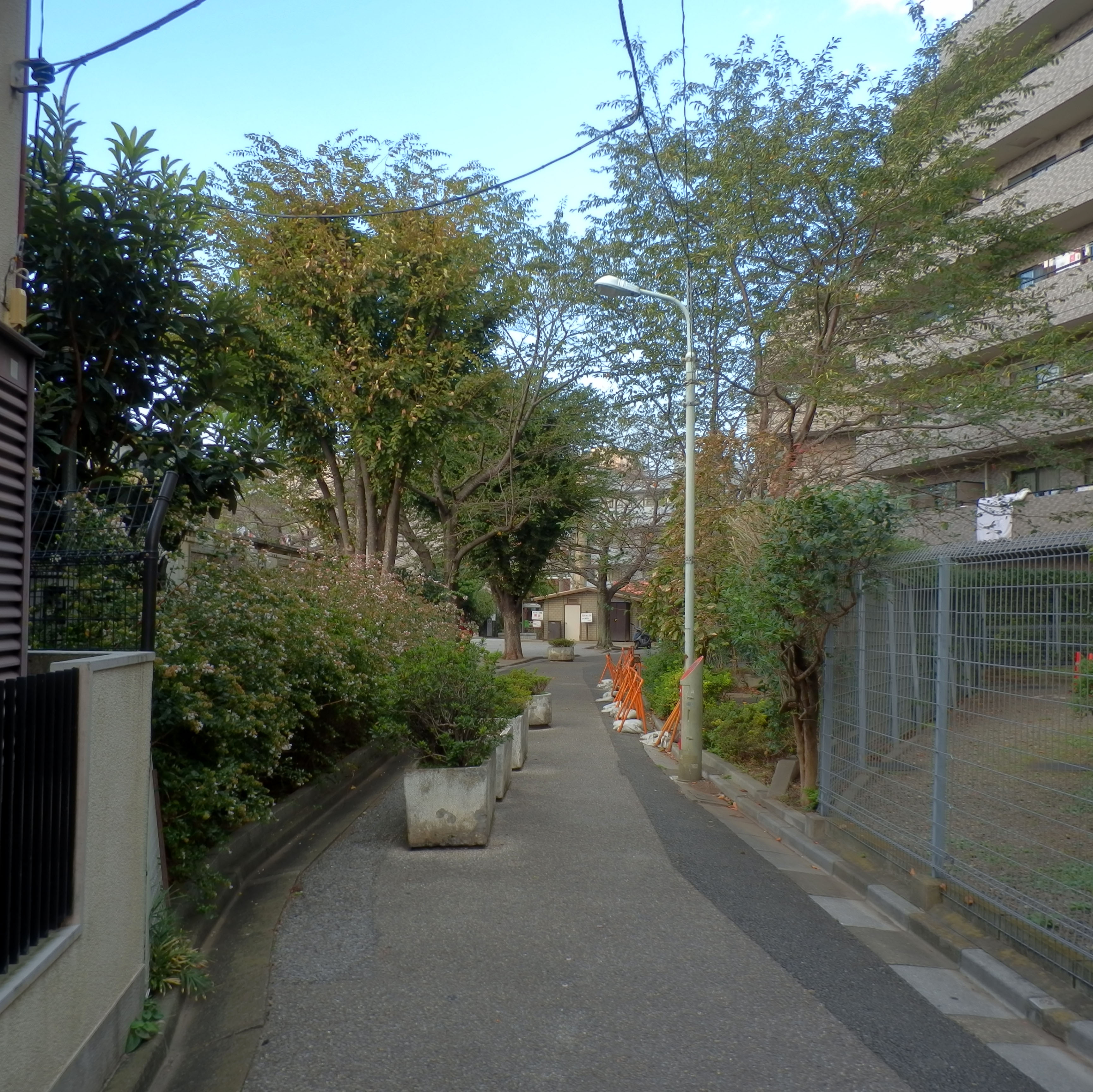 Kanda river Sasazuka branch (underdrained)